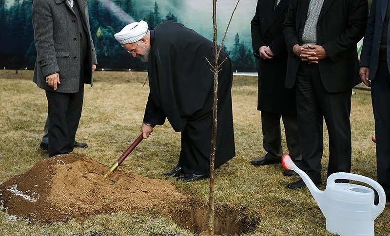 President Hassan Rouhani in Arbor Day